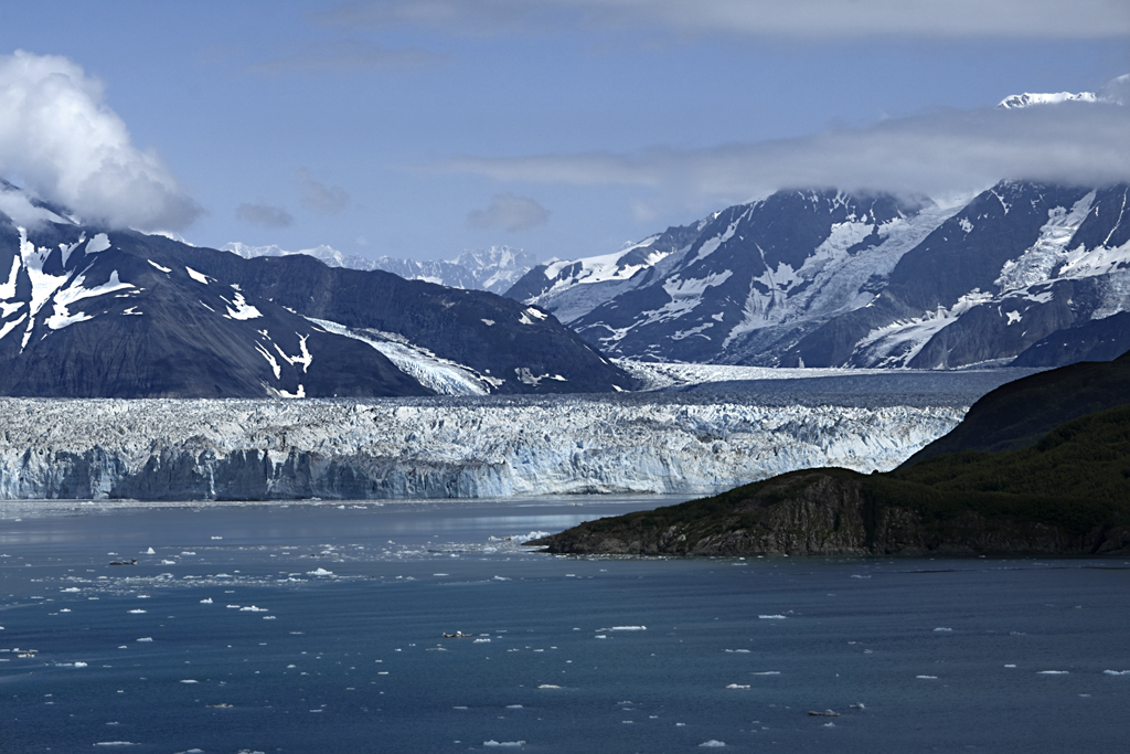 Mount Vancouver (15,700 feet) can be seen in the distance - center image. Hubbard Glacier, longest tidewater glacier in North America, begins its 76 mile journey to the sea on the slopes of Mount Logan, the tallest mountain in Canada and part of the largest non-polar icefield in the world. At the point where it enters Disenchantment Bay, at the head of Yakutat Bay, it is 6 miles wide. Reference